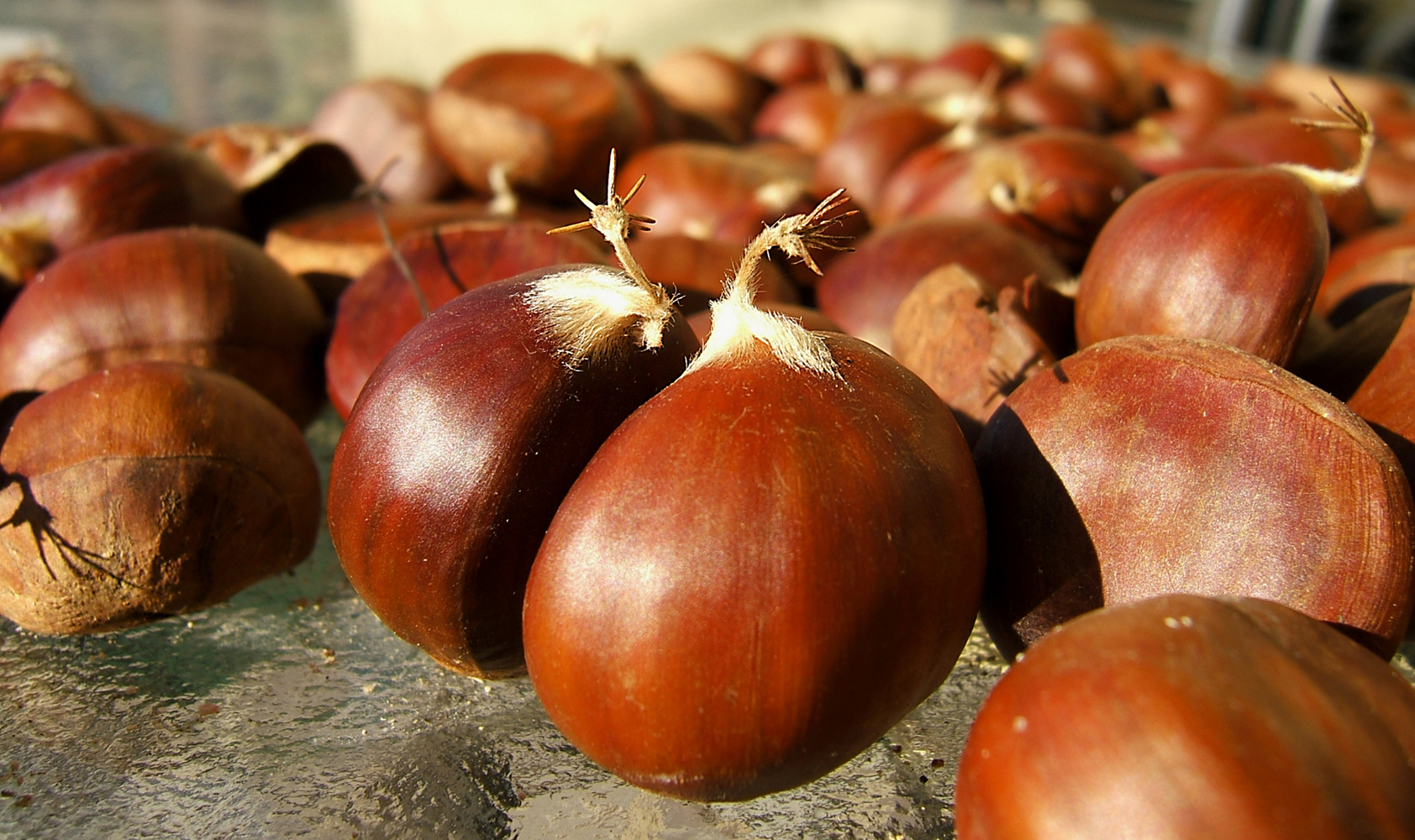 Sweet Chestnut